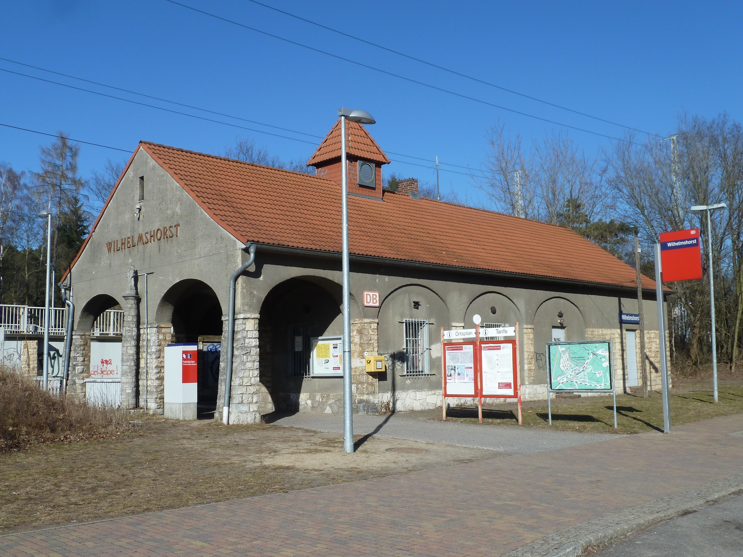 Wilhelmshorst railway station, station building, cultural heritage.